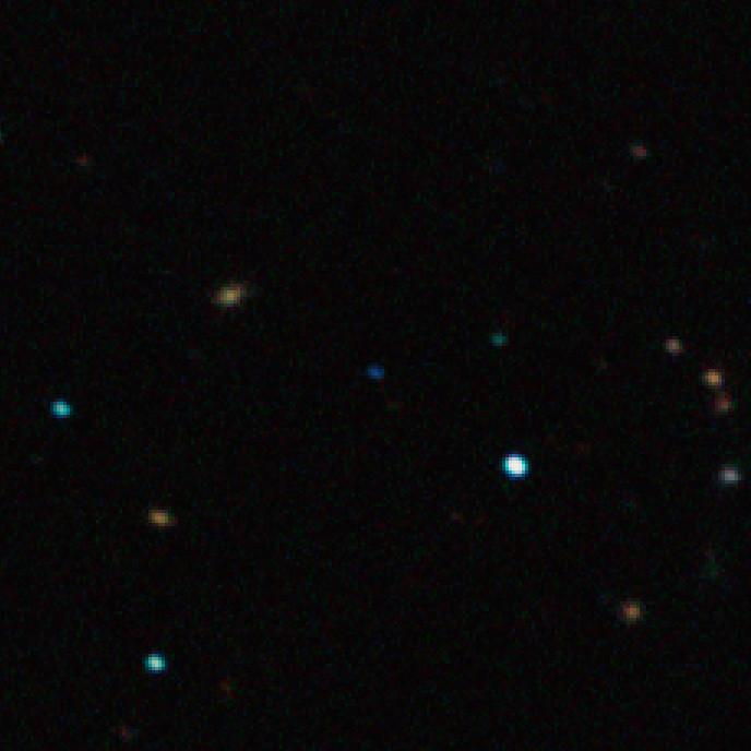 This closeup of an image captured by the SOFI instrument on ESO’s New Technology Telescope at the La Silla Observatory shows the free-floating planet CFBDSIR J214947.2-040308.9 in infrared light. This object, which appears as a faint blue dot at the centre of the picture, is the closest such object to the Solar System. It does not orbit a star and hence does not shine by reflected light; the faint glow it emits can only be detected in infrared light. The object appears blueish in this near-infrared view because much of the light at longer infrared wavelengths is absorbed by methane and other molecules in the planet's atmosphere. In visible light the object is so cool that it would only shine dimly with a deep red colour when seen close-up.